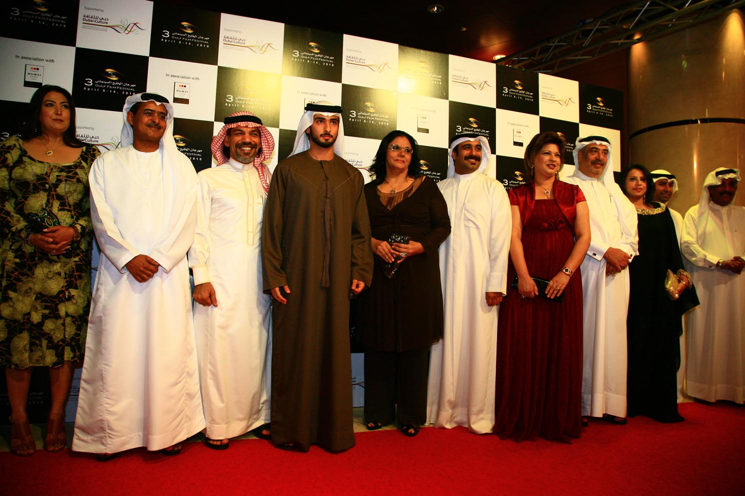 Sheikh Majid at the closing event of 3rd Gulf Film Festival